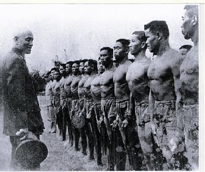 Chiang Kai-shek speaking to ROC soldiers.